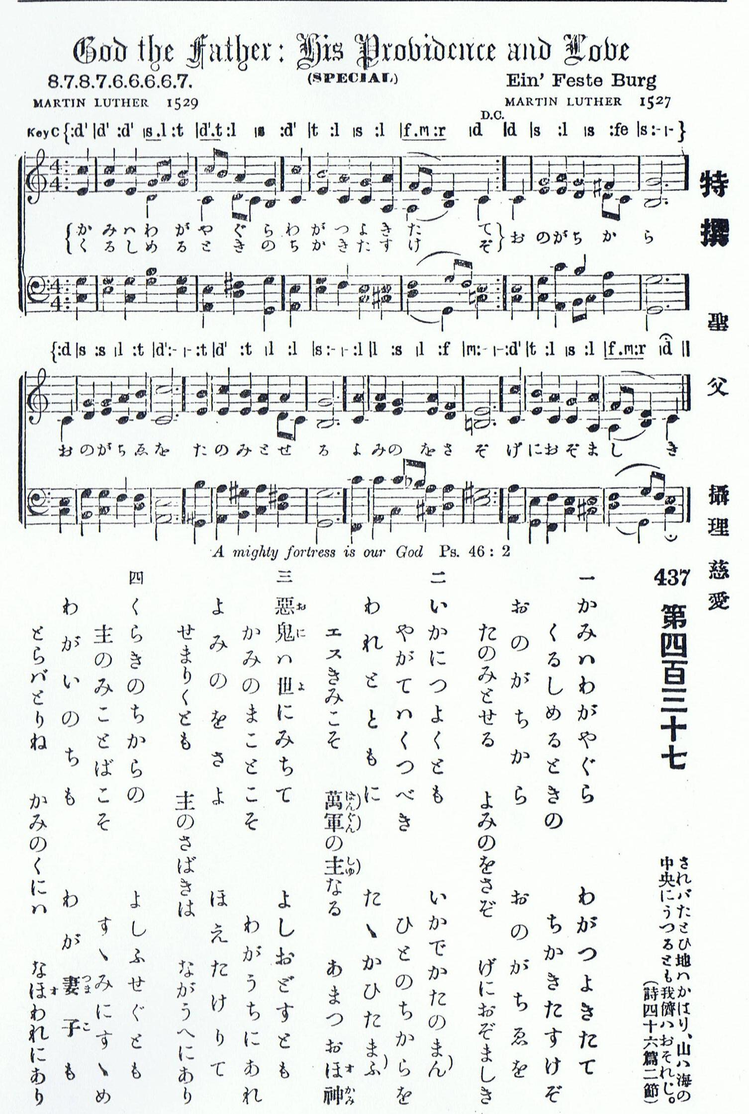 A Mighty Fortress Is Our God